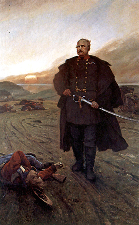 Painting of Olaf Rye, Dano-norwegian general who died at the Battle of FredericiaDansk: Olaf Rye (Ole) (16. november 1791 - 6. juli 1849). Dansk-norsk krigshelt - generalmajor - fra Treårskrigen. Faldt ved udfaldet fra Fredericia.